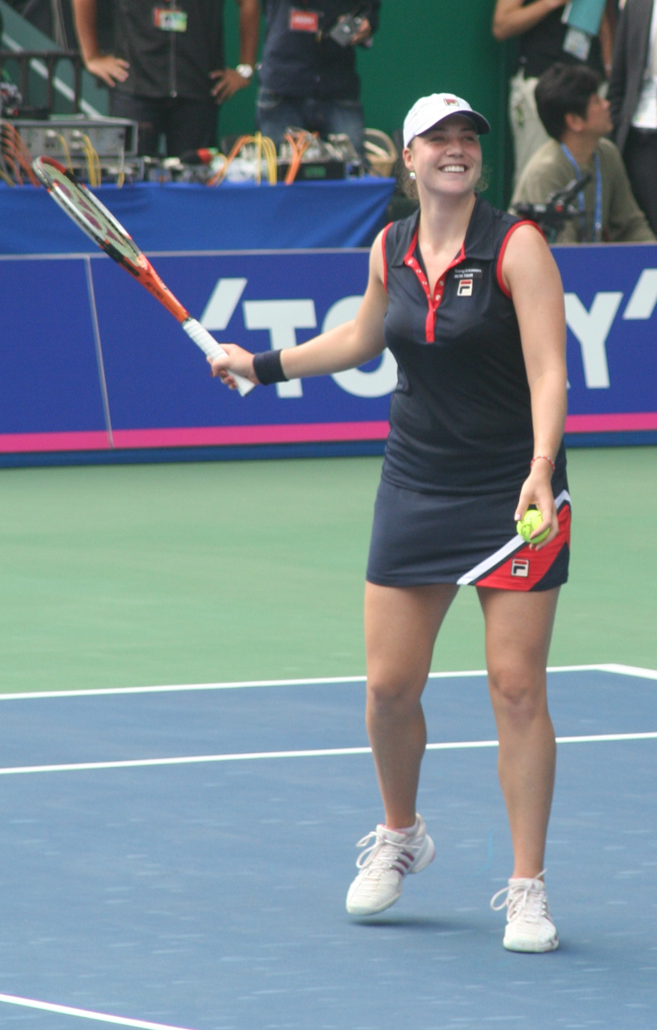 Russian Tennis player Alisa Kleybanova on the opening day of the Toray Pan Pacific Open 2009 in Tokyo.